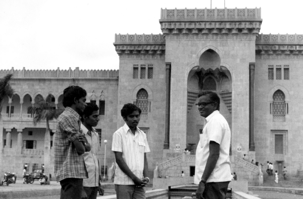 Caption: Dr. Vijayam, geology professor and a member of the Church of South India, talks with some of his students on the Osmania University campus. Citation: Mennonite Board of Missions Photographs, 1898-1967. IV-10-007.2 Box 4 Folder 17. Mennonite Church USA Archives - Goshen. Goshen, Indiana.